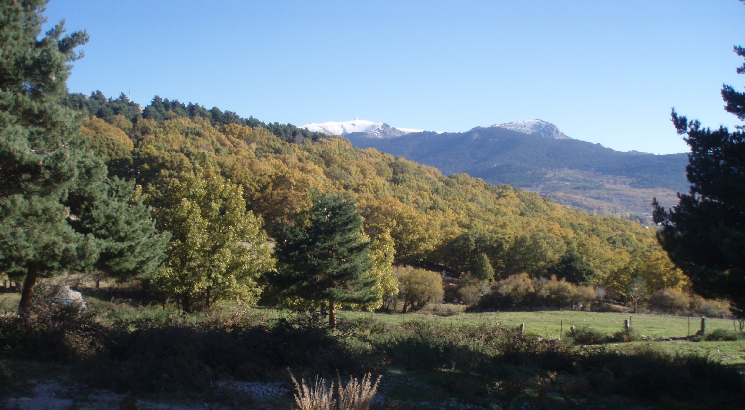 Autumn in the Guadarrama mountain range, Central Spain.